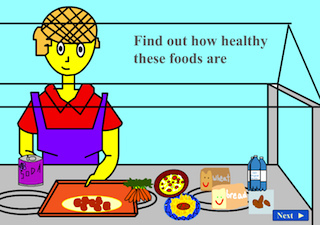 Screenshot of original game created in Globaloria.